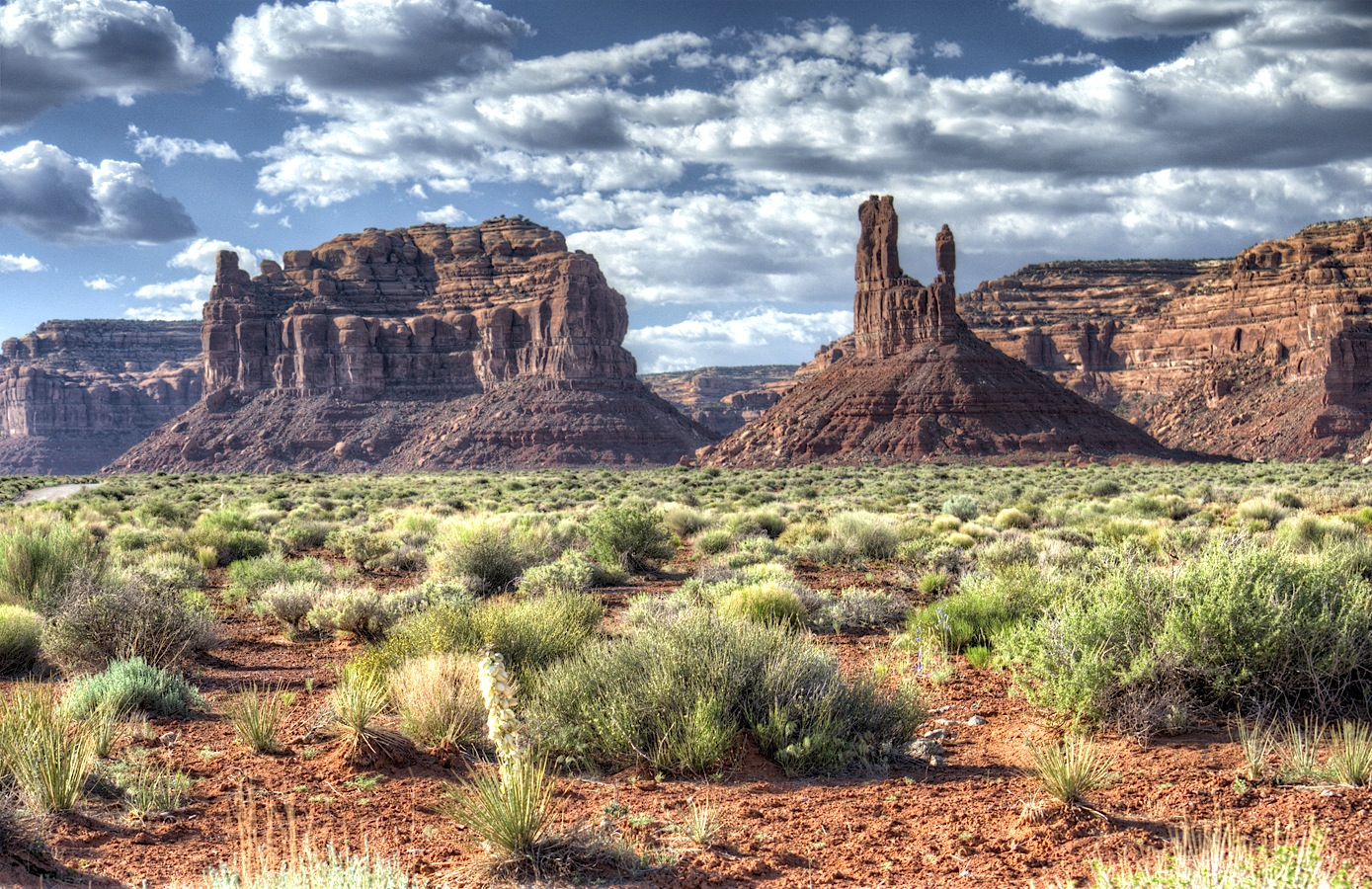 Late afternoon light flows across the desert in Valley of the Gods, near Bluff, Utah.